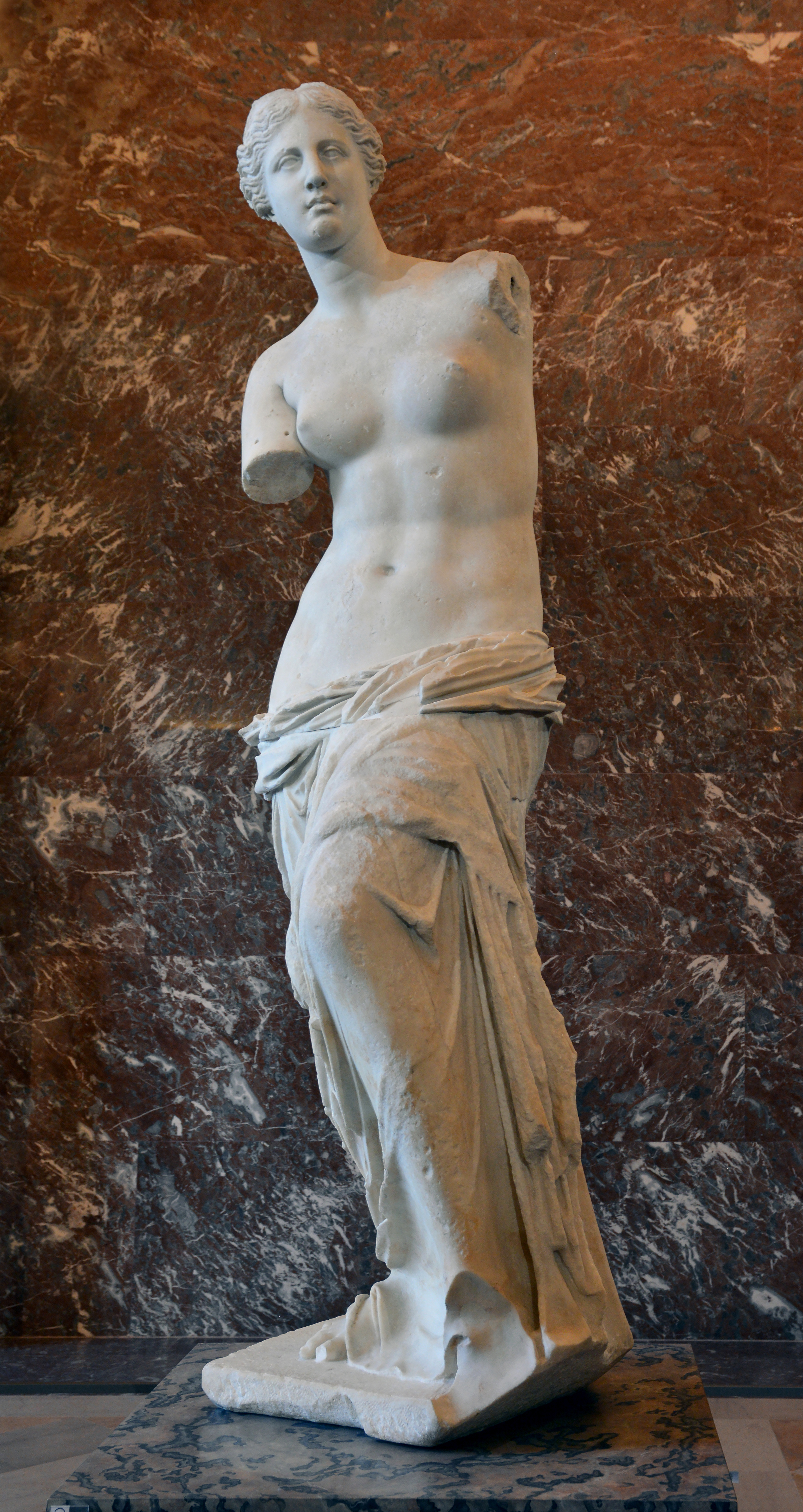 Front views of the Venus de Milo